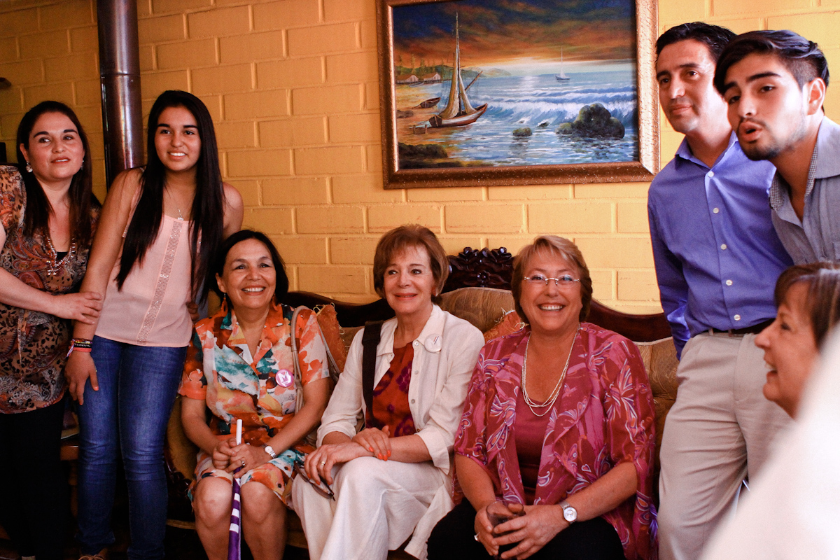 Michelle Bachelet y la actriz Liliana Ross.